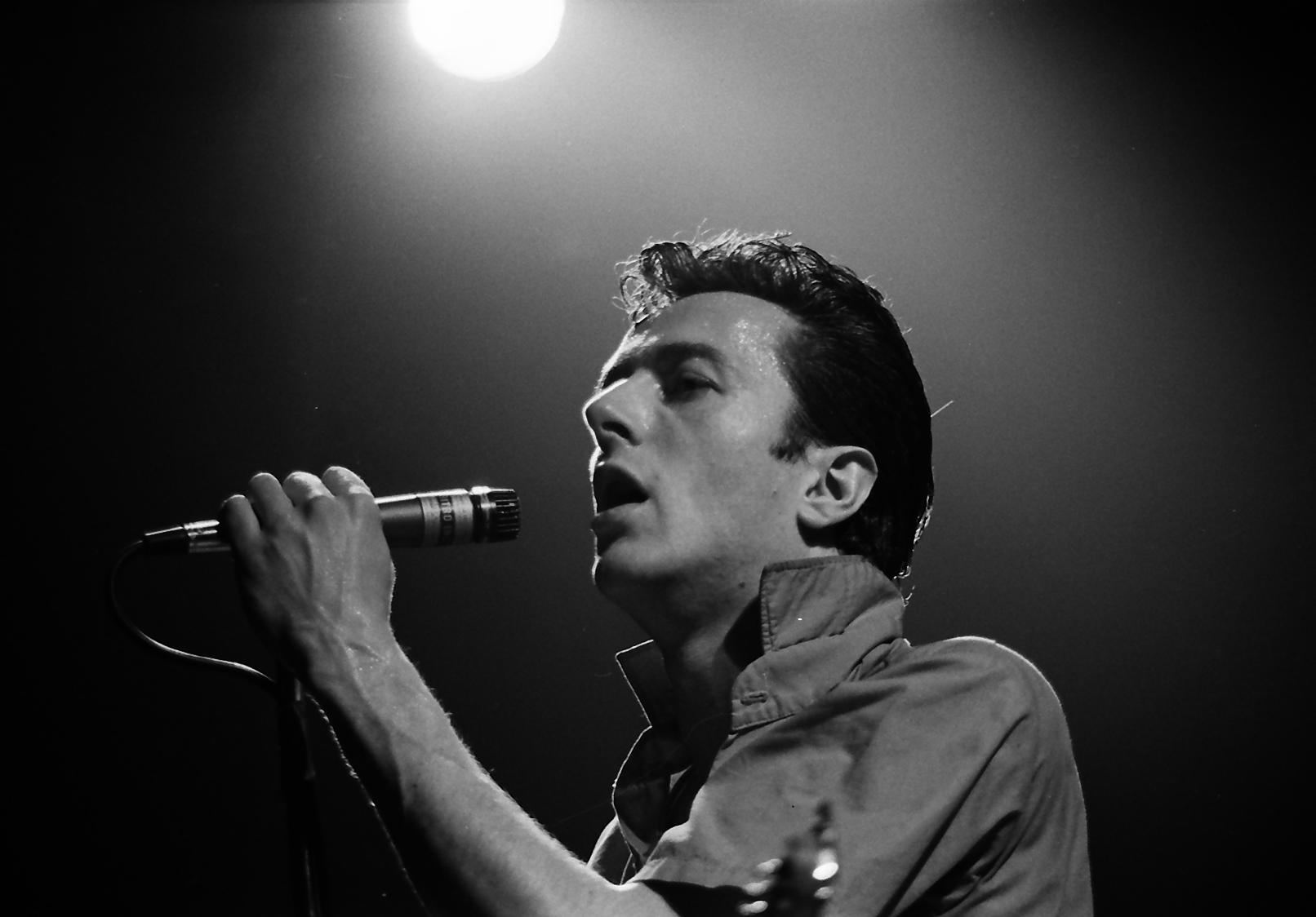 Joe Strummer performing with The Clash at the Tower Theater Show March 6, 1980.